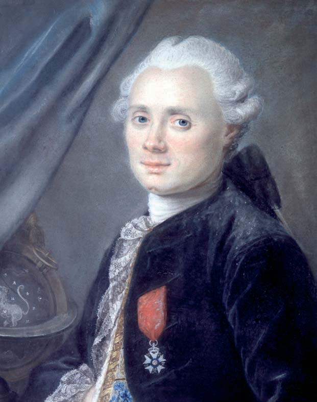 Charles Messier, French astronomer, at the age of 40